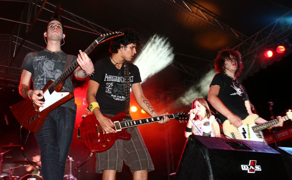 Nikki Clan in 2007.